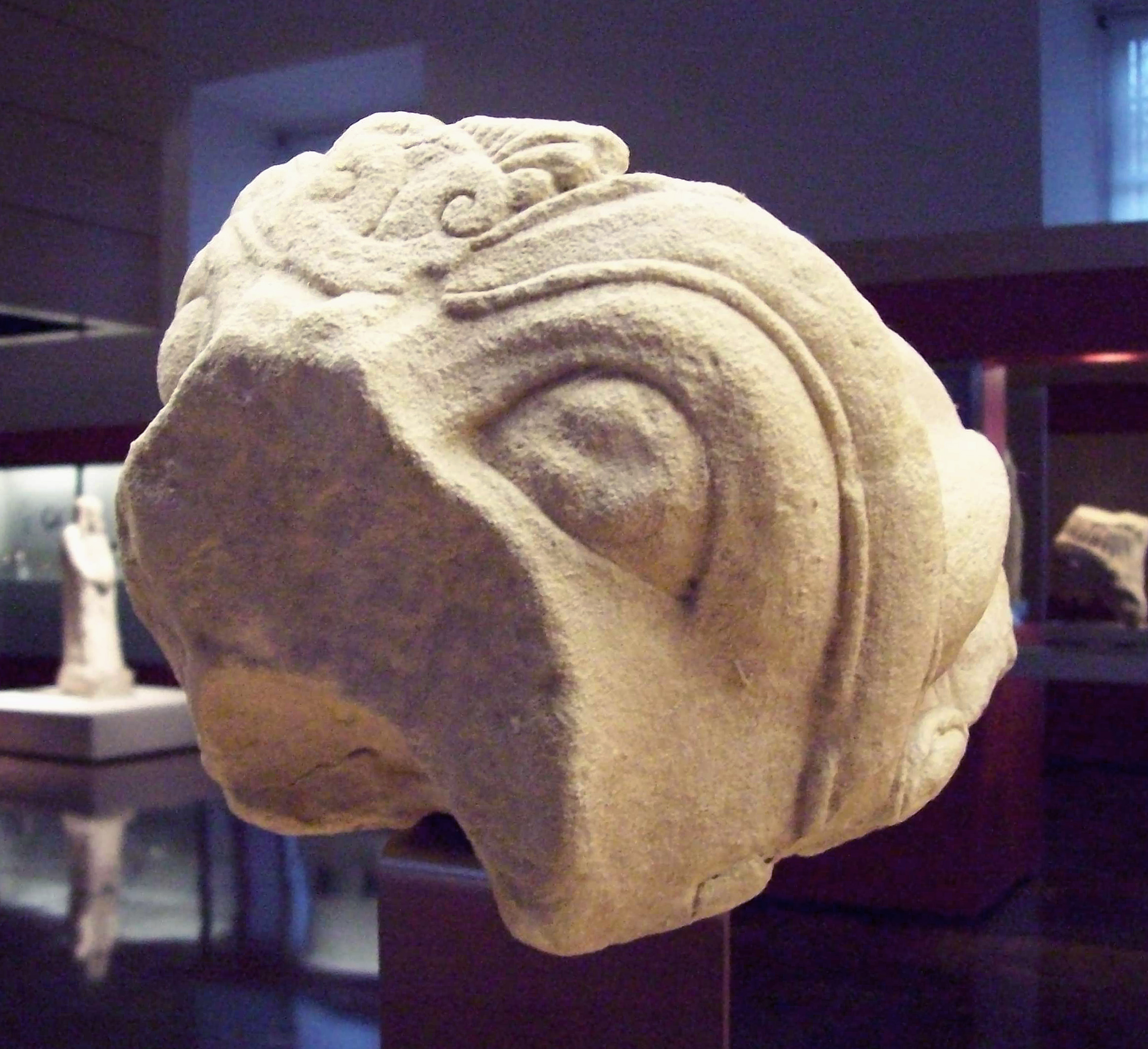 Iberian artwork from the Iron Age II.